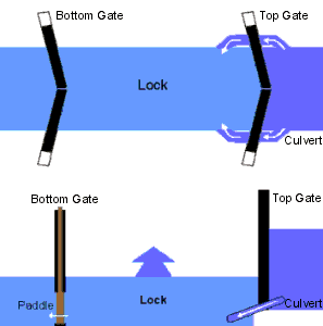 Very basic diagram of canal lock gates